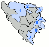 Map of Regions of Republika Sprpska.